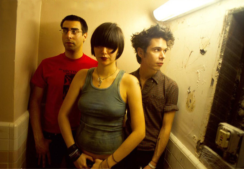 Yeah Yeah Yeahs, taken during the re-construction of the Roosevelt Hotel in Hollywood in December 2002